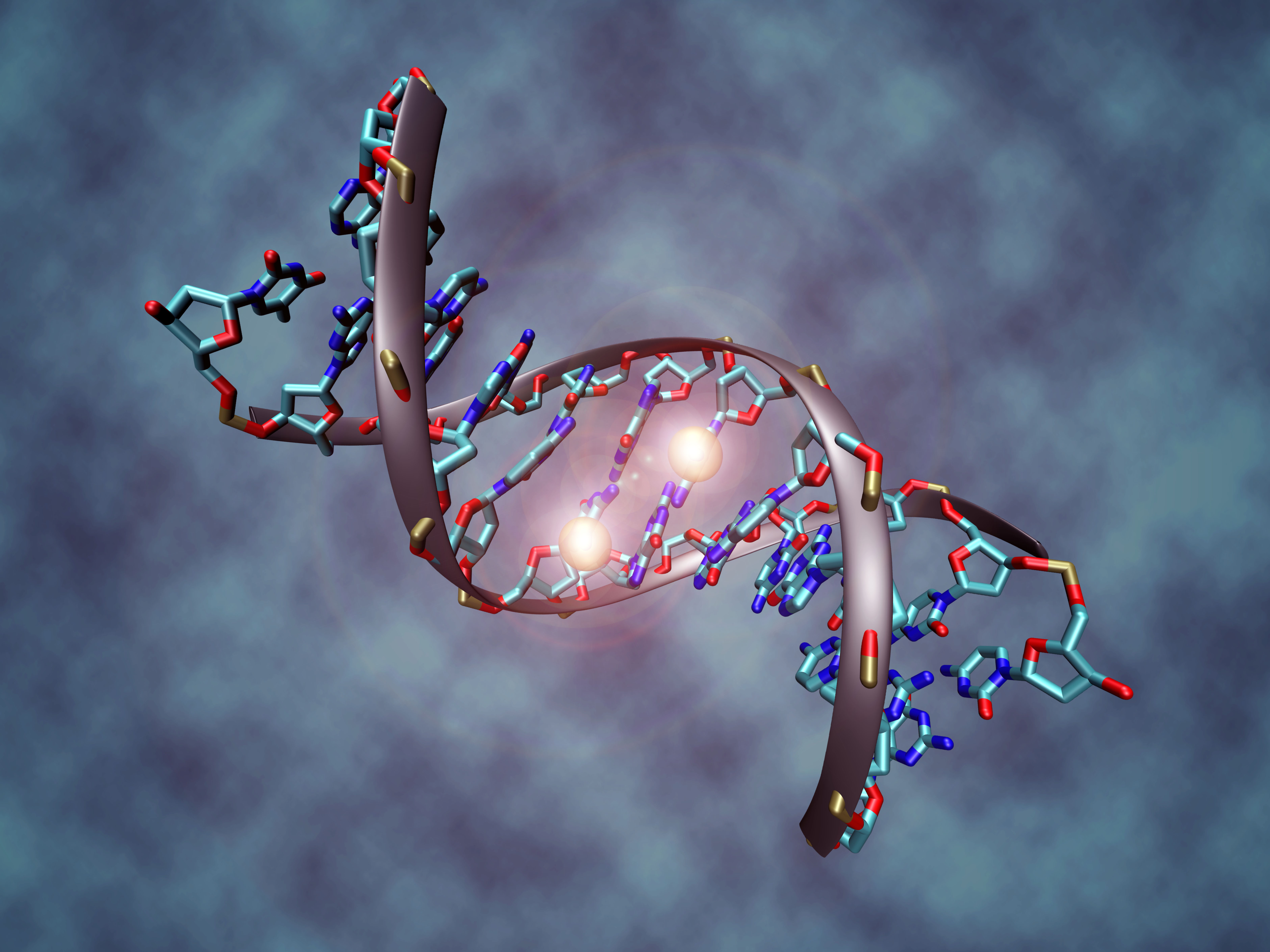 This image shows a DNA molecule that is methylated on both strands on the center cytosine. DNA methylation plays an important role for epigenetic gene regulation in development and cancer. [Details: The picture shows the crystal structure of a short DNA helix with sequence "accgcCGgcgcc", which is methylated on both strands at the center cytosine. The structure was taken from the Protein Data Bank (accession number 329D), rendering was performed with VMD (Visual Molecular Dynamics rendering program) and post-processing was done in Photoshop.